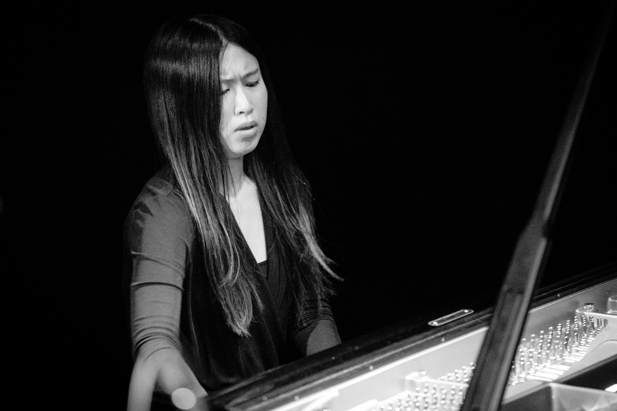 Ayumi Tanaka at Victoria Teater. The concert took place on 26. April 2018 in Oslo. The concert was part of Nasjonal Jazzscene's 10 year jubilee celebration. Lineup: Marthe Lea (saxophone), Ayumi Tanaka (piano) and Thomas Strønen (drums).